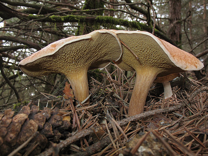 Suillus bovinus under conifer, Spain